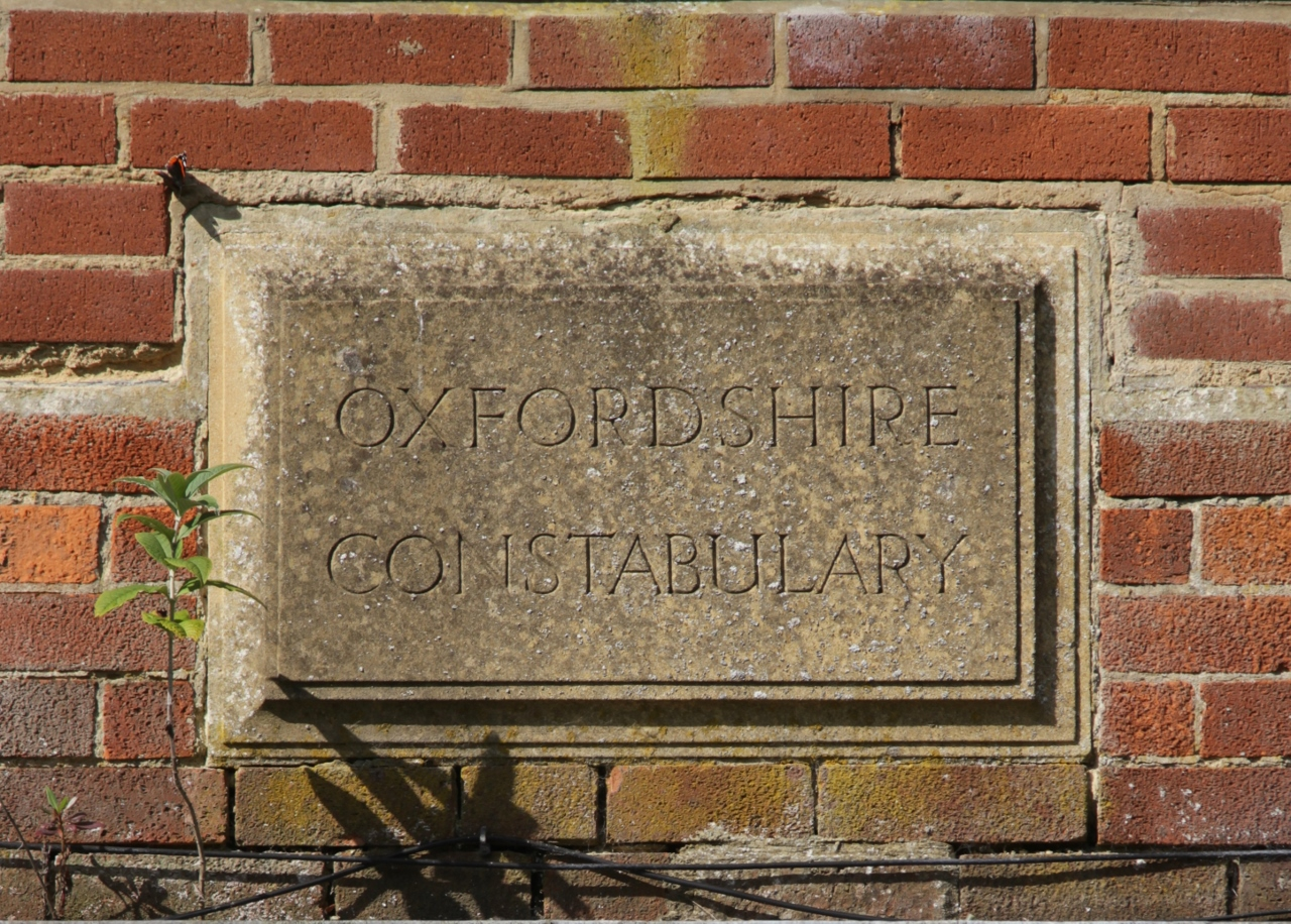 Inscription over the door of a former police office at the junciton of Oxford Road and Grange Road, Banbury, Oxfordshire, seen from the east